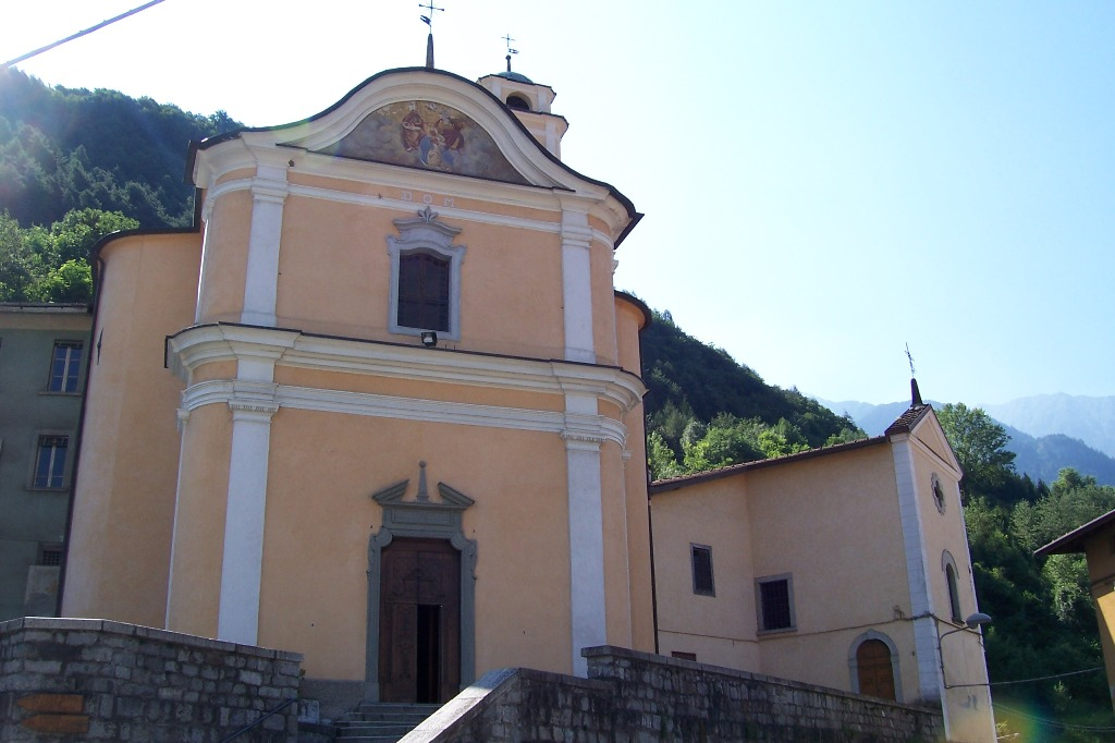 Church of purification of Mary. Braone, Valle Camonica